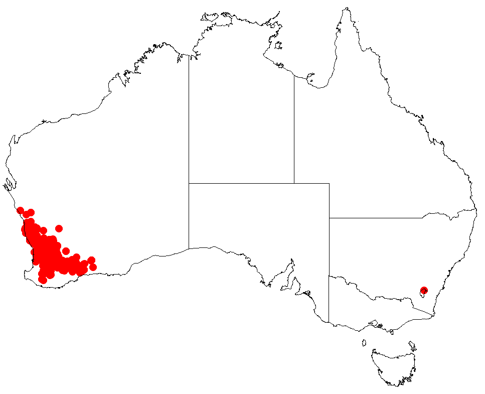 Hakea incrassata Occurrence data downloaded from Australasian Virtual Herbarium on 22 November 2018 using